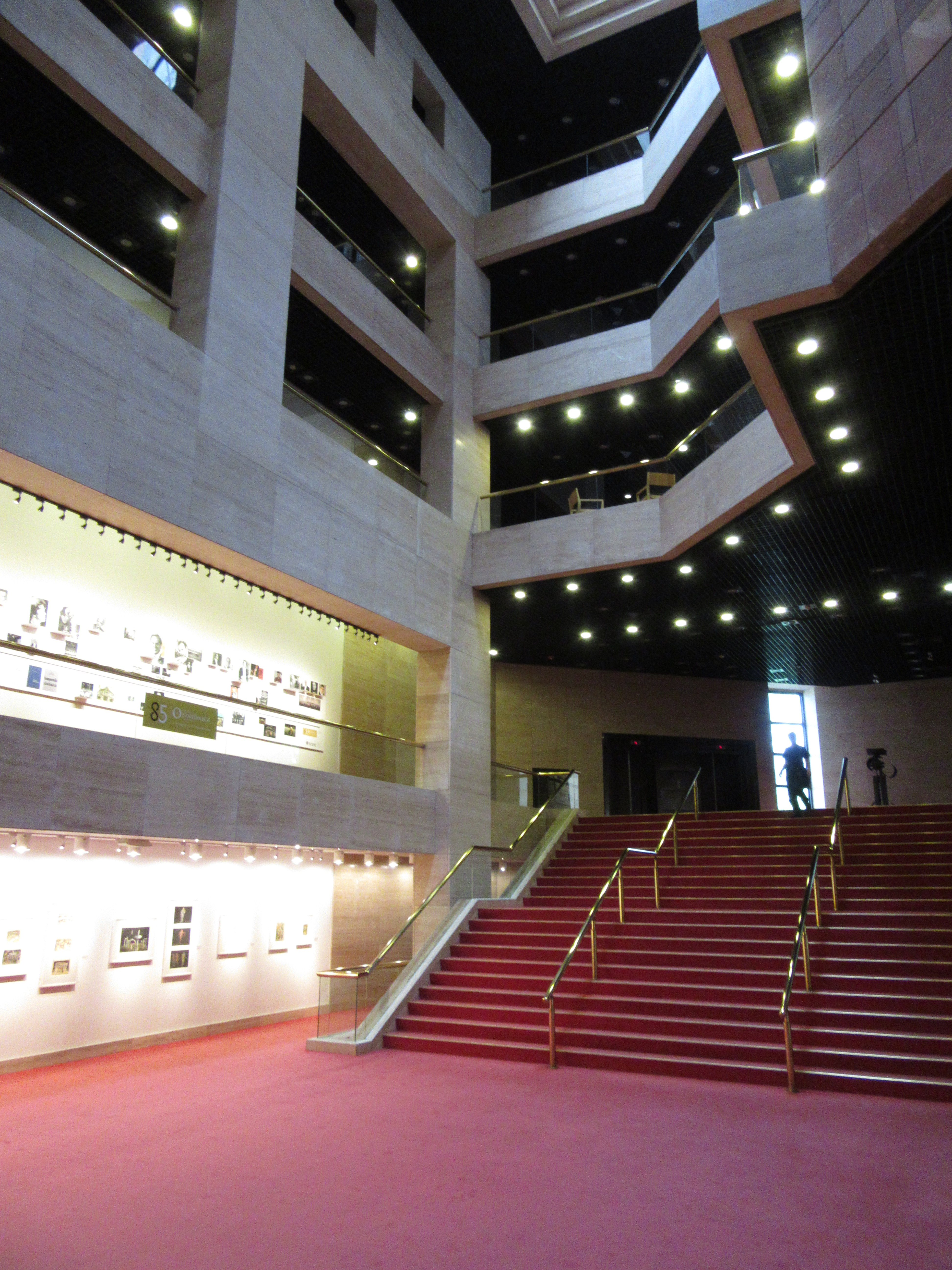 Montevideo